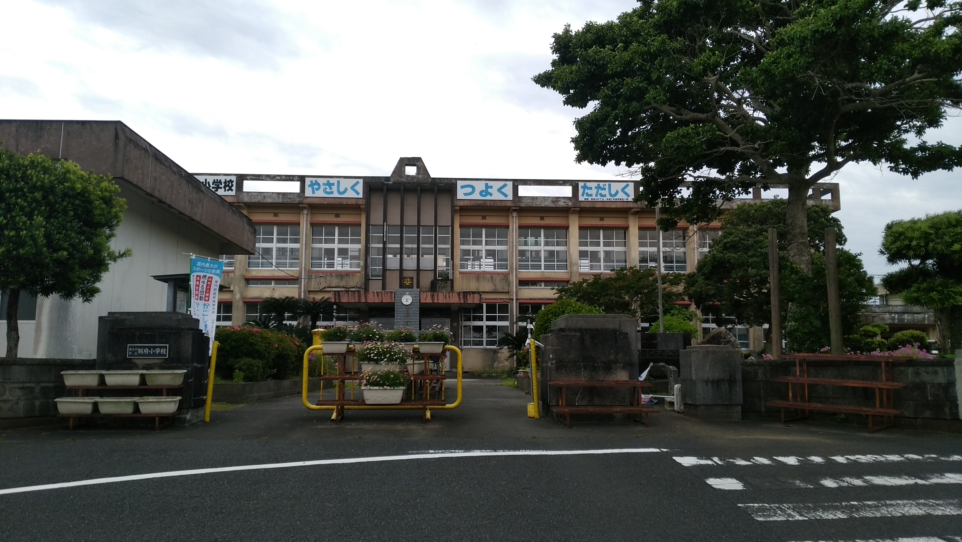 Main gate for north